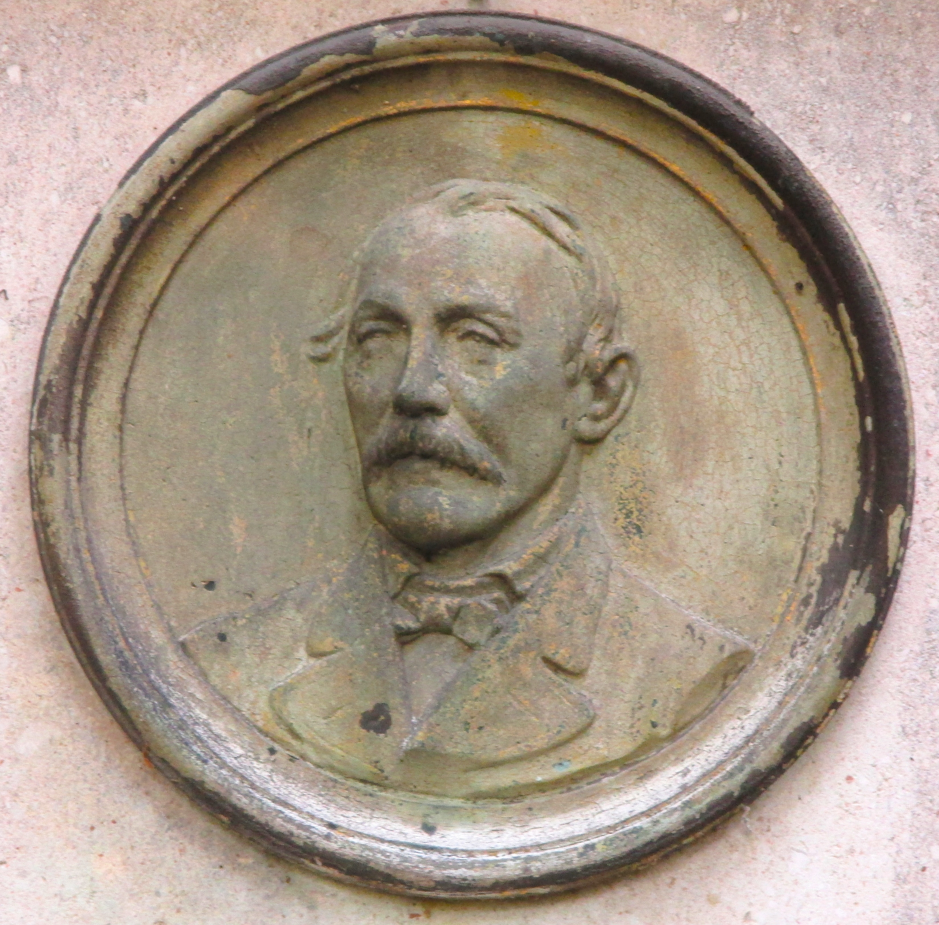 Portrait-Grave-Johann-Trappentreu-Alter-Suedl-Friedhof-Munich